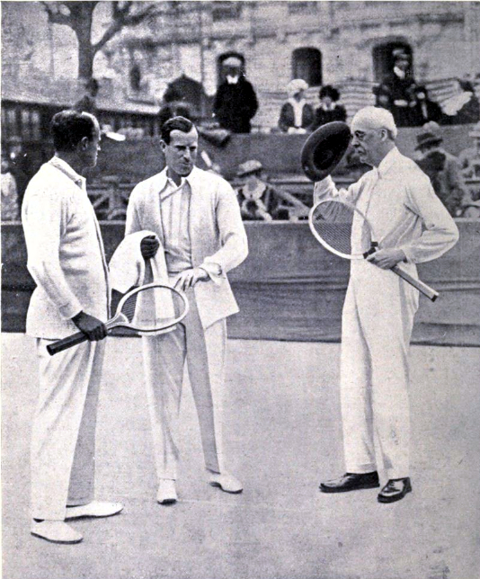 Anthony Wilding and Lord Arthur Balfour at Nice, 1914